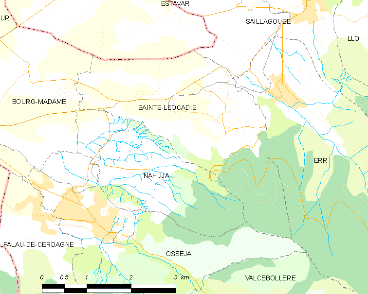 Map of French municipality